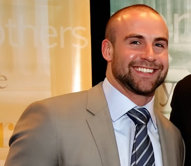 Tyler Sash, then a safety with the New York Giants, at Drake University on Apr. 20, 2012.